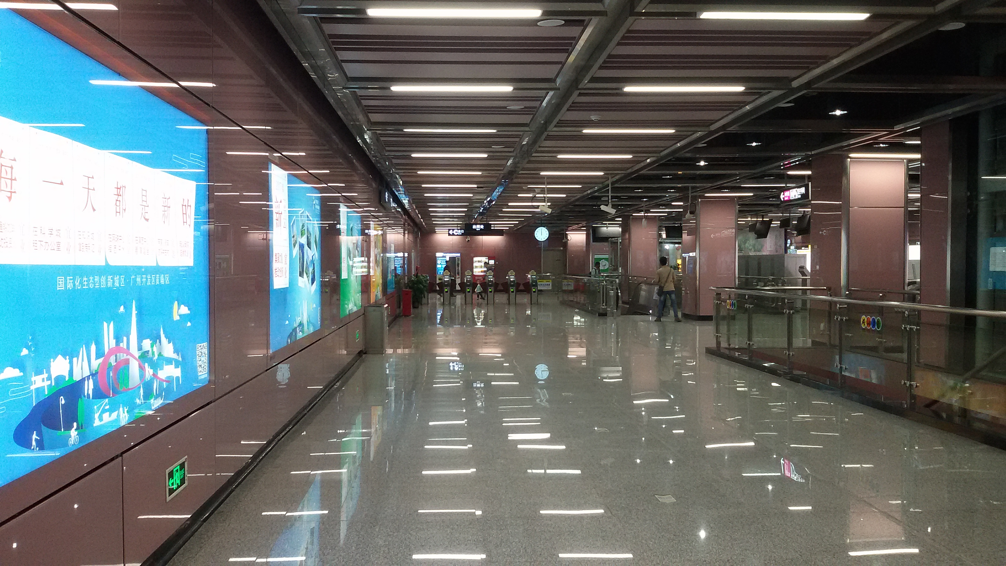 Station Concourse for Xiangang Station in Guangzhou Metro .